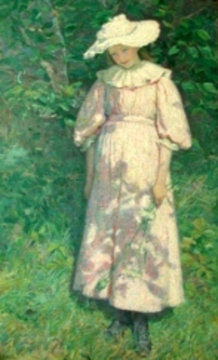 1895 painting of a young girl by Josephine Miles Lewis